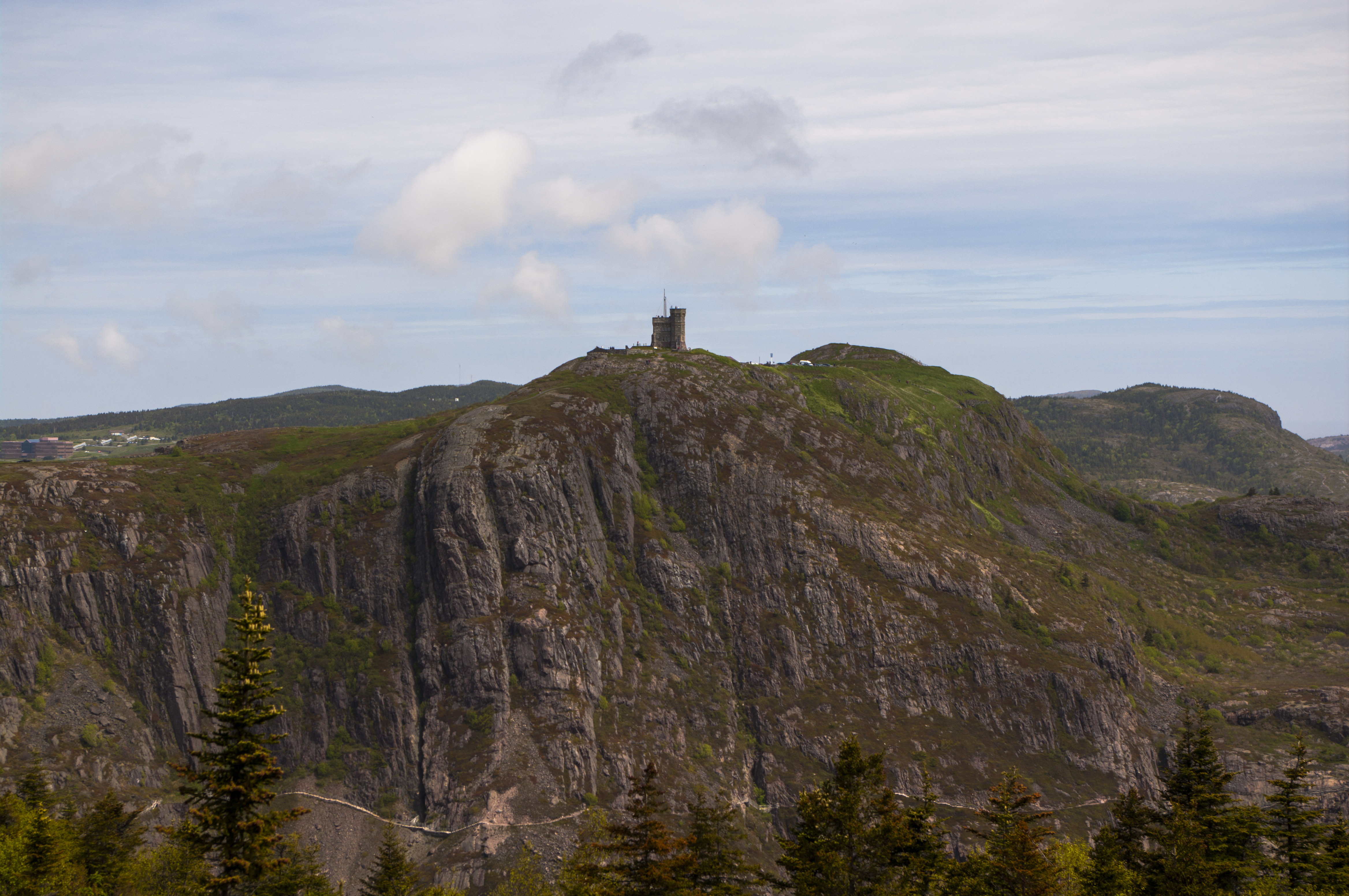 Cabot Tower, located in St. John's NL on Signal Hill, Newfoundland. View of the south facing side from the Southside Hills.